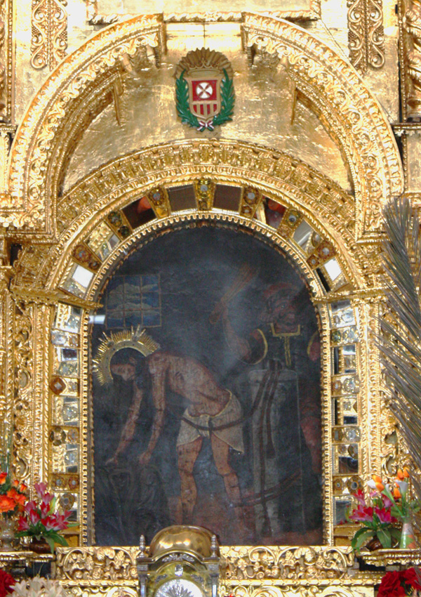 Painting of the "Señor de Huanca" in the altar of his santuary, Calca (Peru)